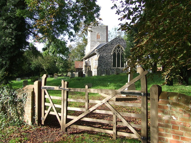 All Saints Church Semer All Saints Church Semer Suffolk.